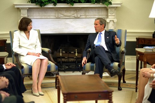 President George W. Bush meets with judicial nominee Priscilla Owen in the Oval Office. File Photo. White House photo by Paul Morse